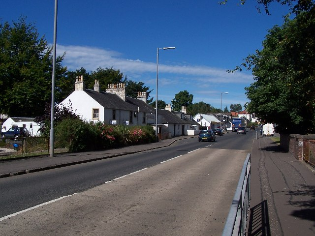 Bishopton